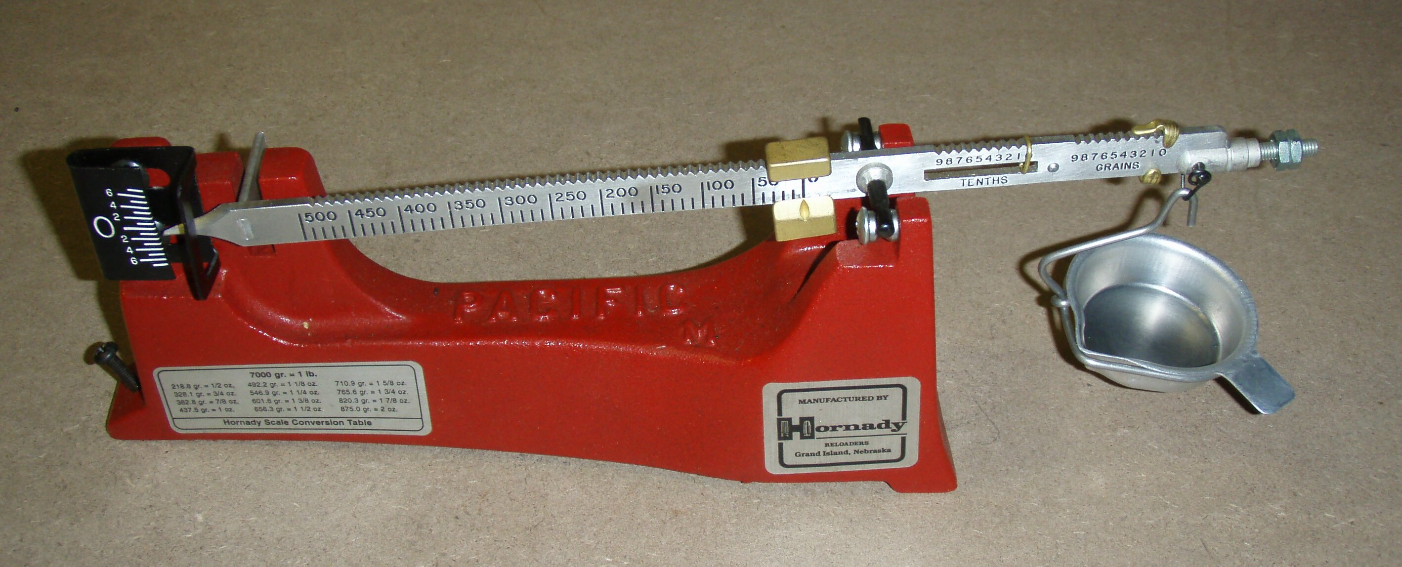 Powder Scale from Hornady for handloading ammunition